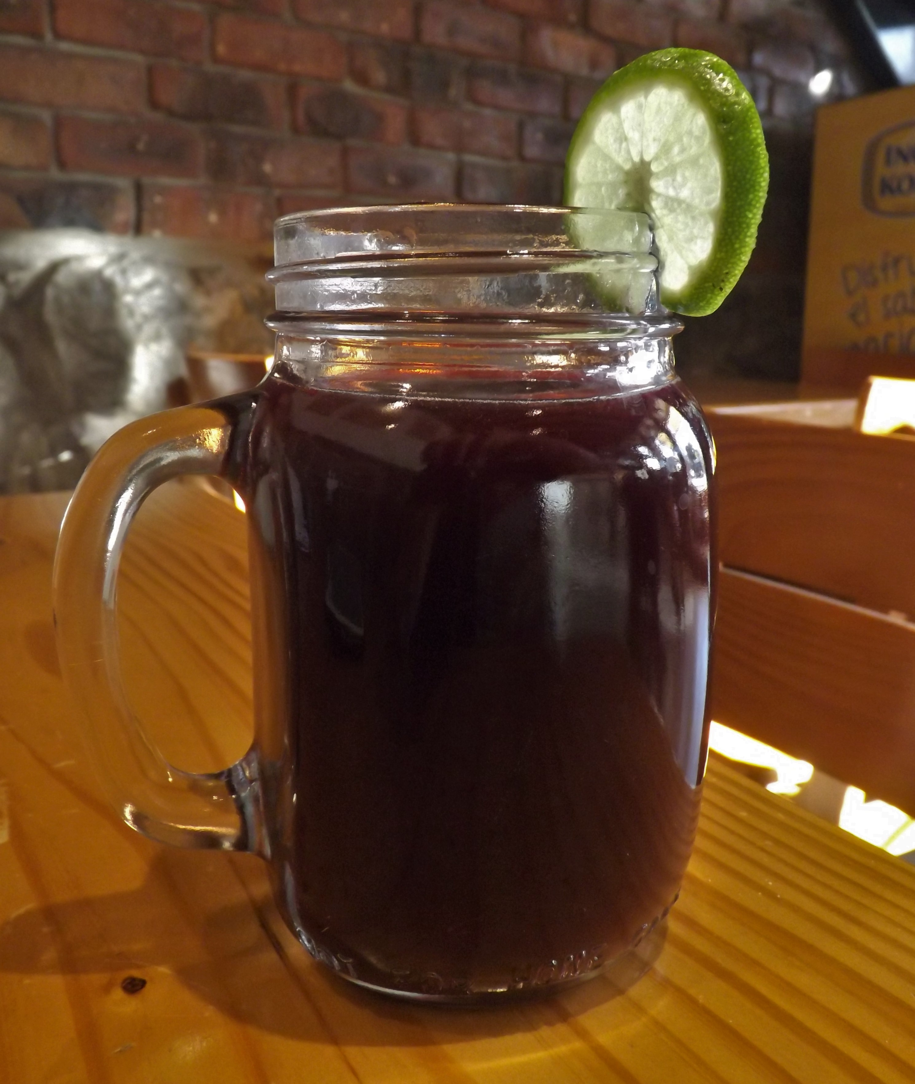 A traditional Peruvian drink made from purple corn . . . and it's yummy! :-) Cusco, Peru.